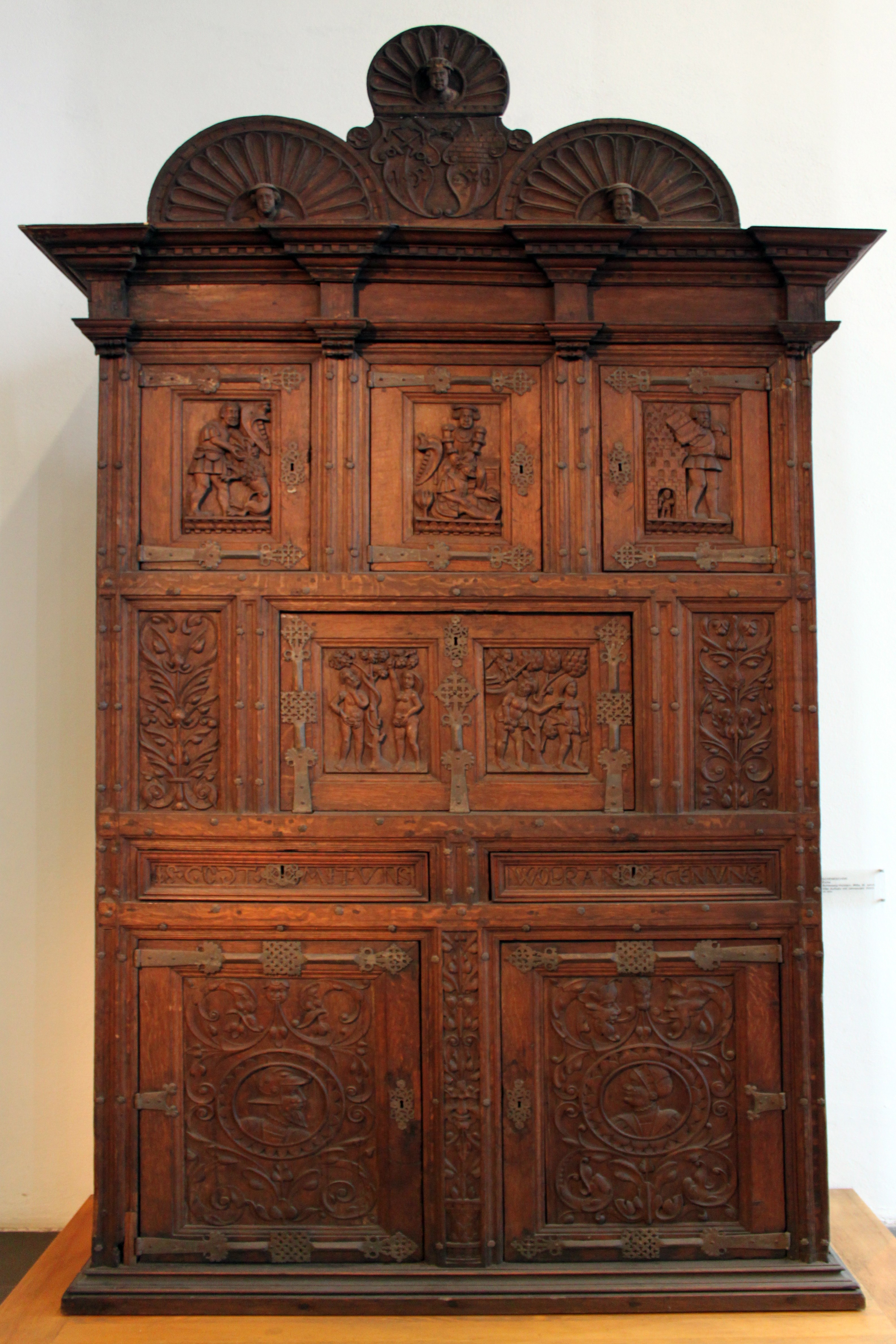 Wardrobe; Schleswig-Holstein; 1550; Germanic National Museum in Nuremberg